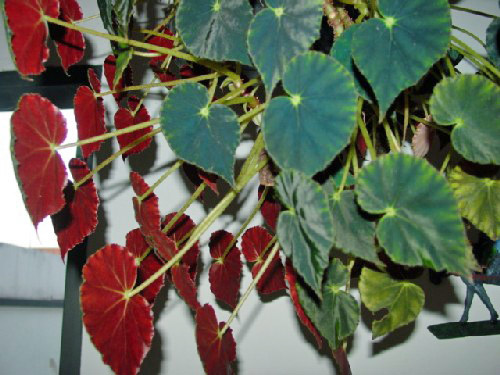 Begonia boverii cultivated in particular garden, Ribeirão Preto. Photo by M. A. P. Accardo Filho.